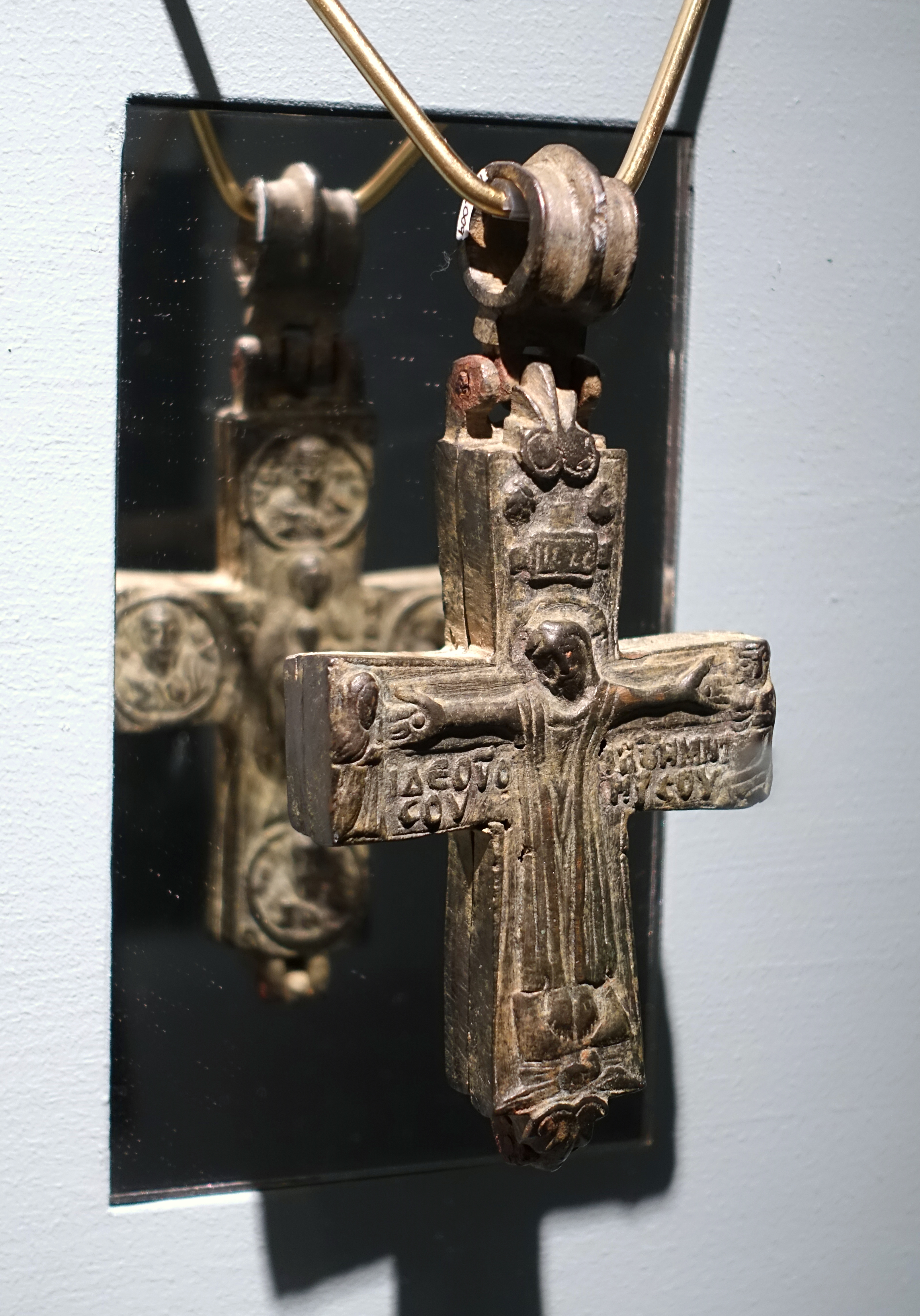 Exhibit in the Middlebury College Museum of Art - Middlebury, Vermont, USA.